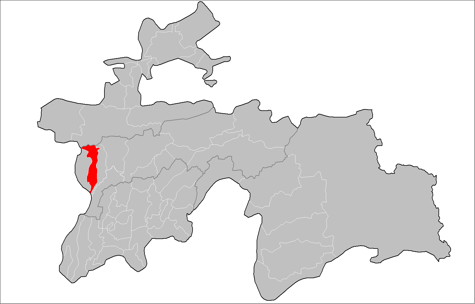 Location of Shahrinaw District in Tajikistan